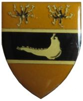 SWATF era Marienthal Commando Area Force Unit emblem